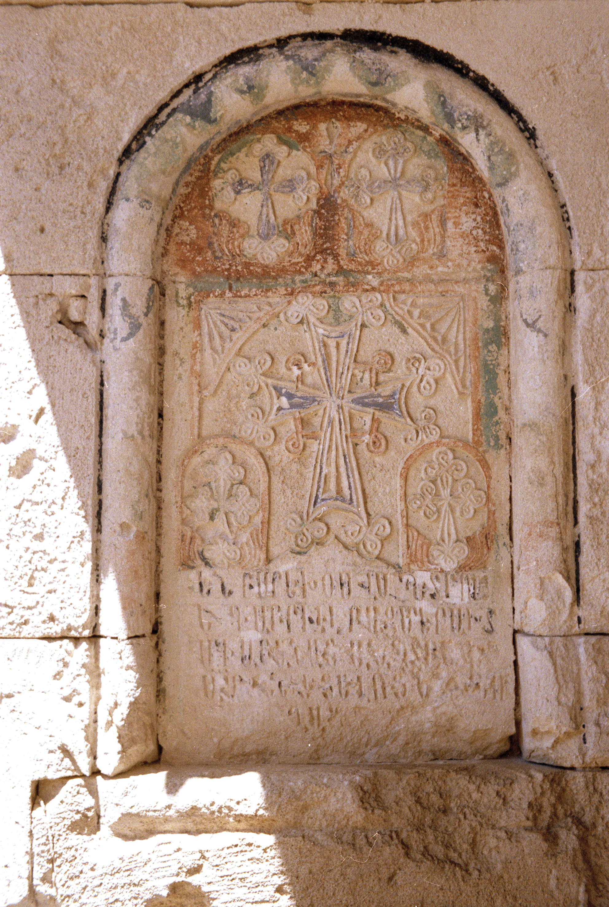 A khachkar (Armenian cross-stone) at the 15th century Armenian monastery of Ktuts on Lake Van in the Armenian plateau (historical Armenia).